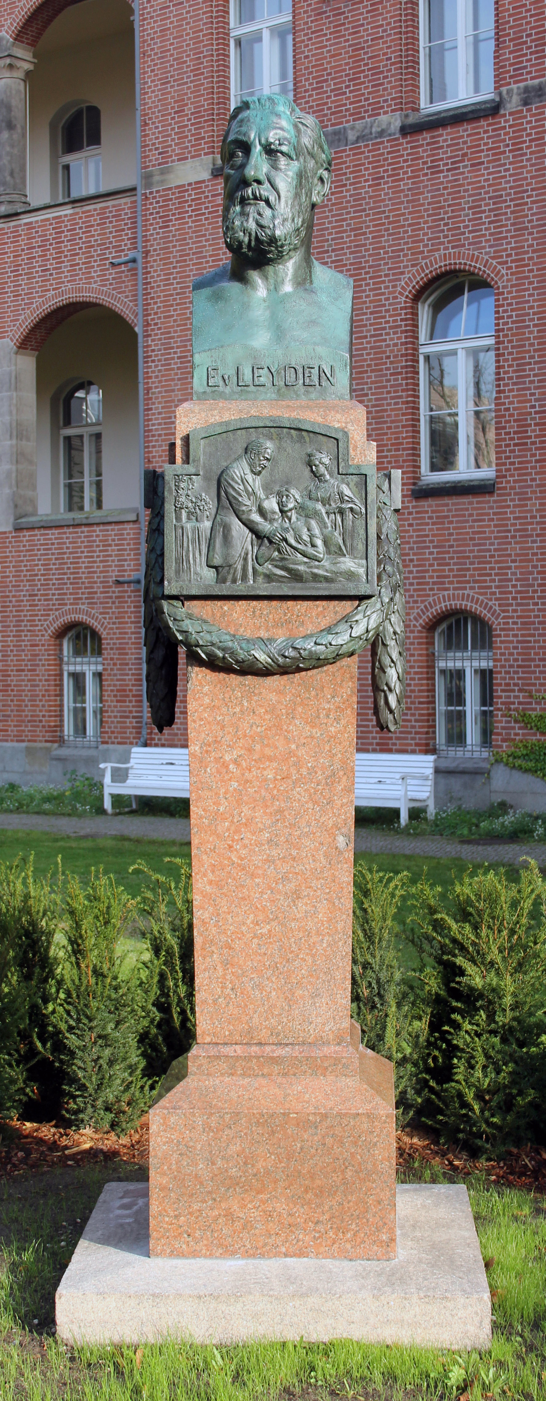 Bust, Ernst von Leyden by Eugen Boermel, 1913, Virchowweg, Berlin-Mitte, Germany